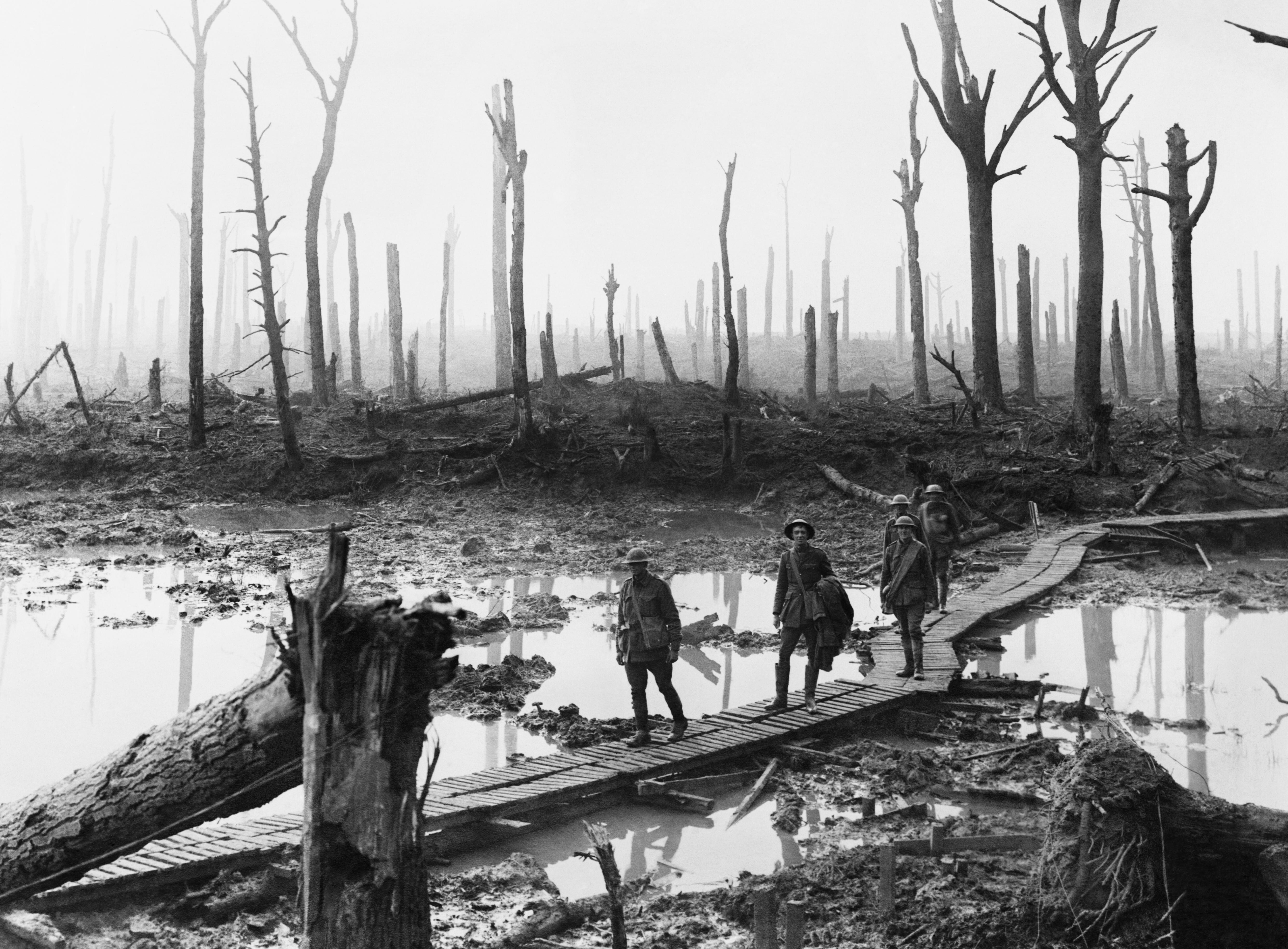 Soldiers of an Australian 4th Division field artillery brigade on a duckboard track passing through Chateau Wood, near Hooge in the Ypres salient, 29 October 1917. The leading soldier is Gunner James Fulton and the second soldier is Lieutenant Anthony Devine. The men belong to a battery of the 10th Field Artillery Brigade. Note: Photo from the devastated castle park, belonging to Château de Hooge at Ypres (kasteelpark van het Kasteel 't Hooghe, Ieper), where the frontline with trenches moved back and forth 1914-1918. The castle was heavily shelled on 31 Oct. 1914, killing the staff of the three British divisions using it as headquarters and the ruins were conquered several times by each side. Hooge is now a memorial site.